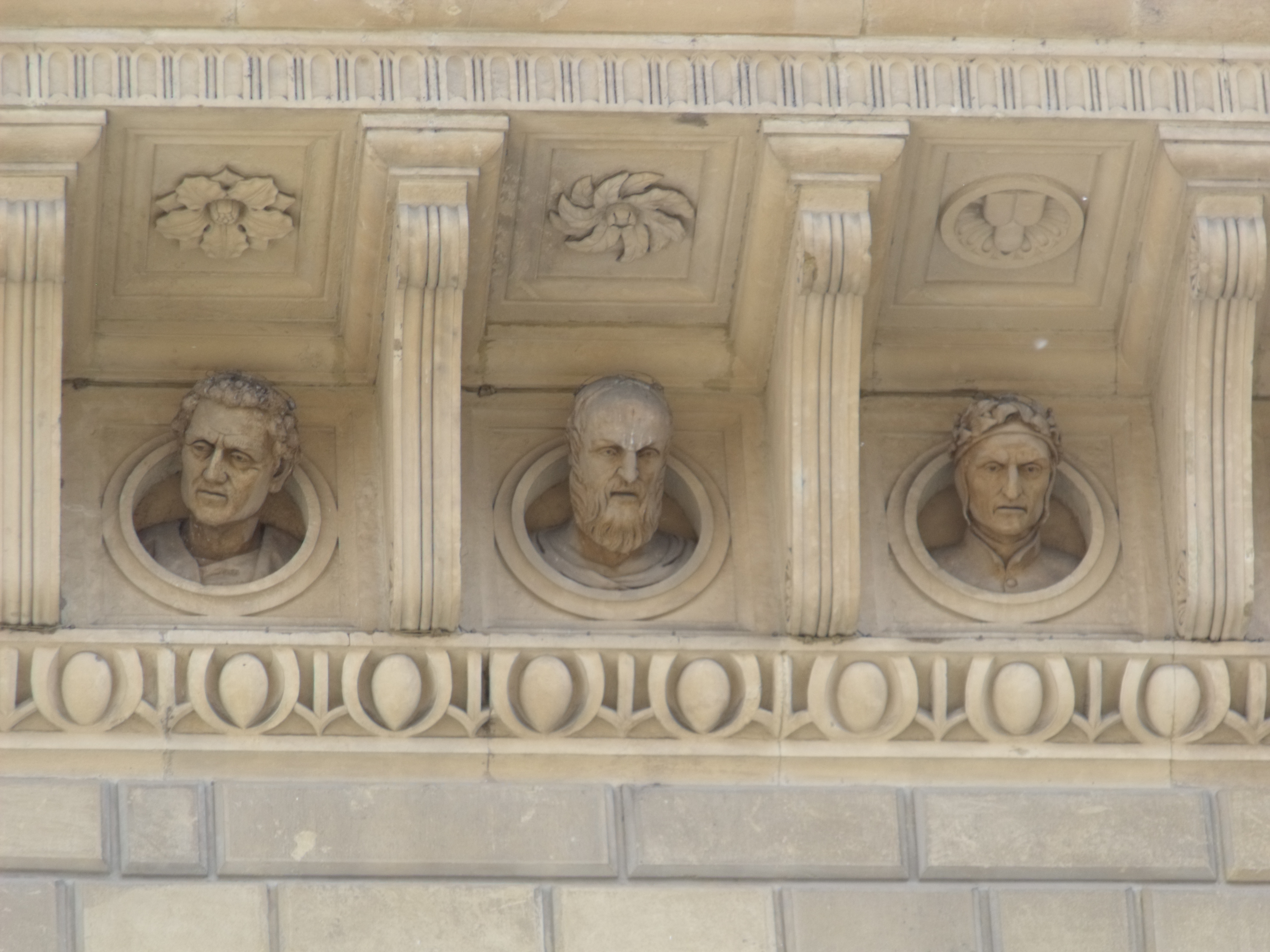 Detail of the roof of Palazzo Spannocchi on Piazza Salimbeni in Siena, Tuscany, Italy